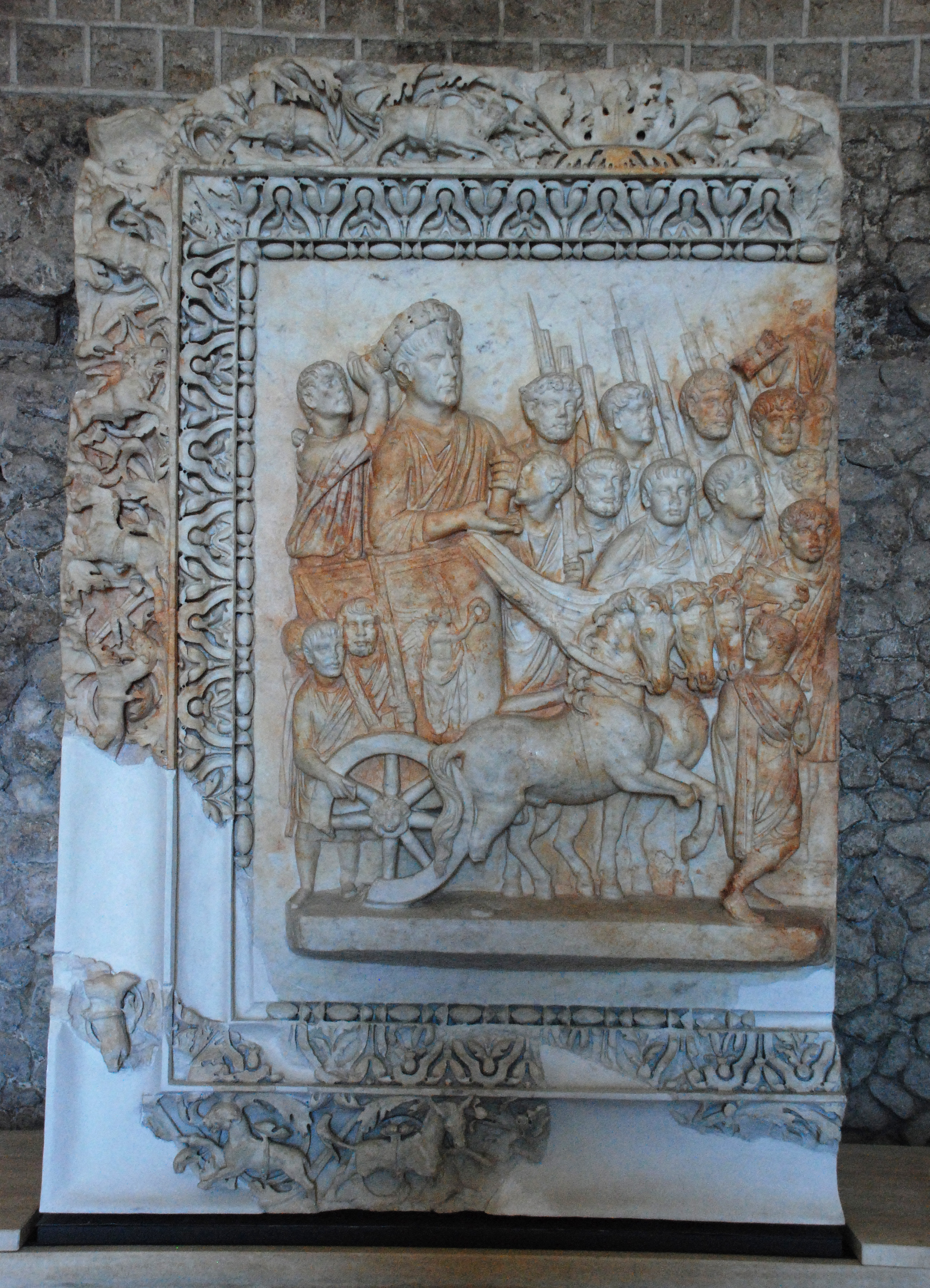 Sanctuary of Fortuna Primigenia and The National Archeological Museum Of Palestrina